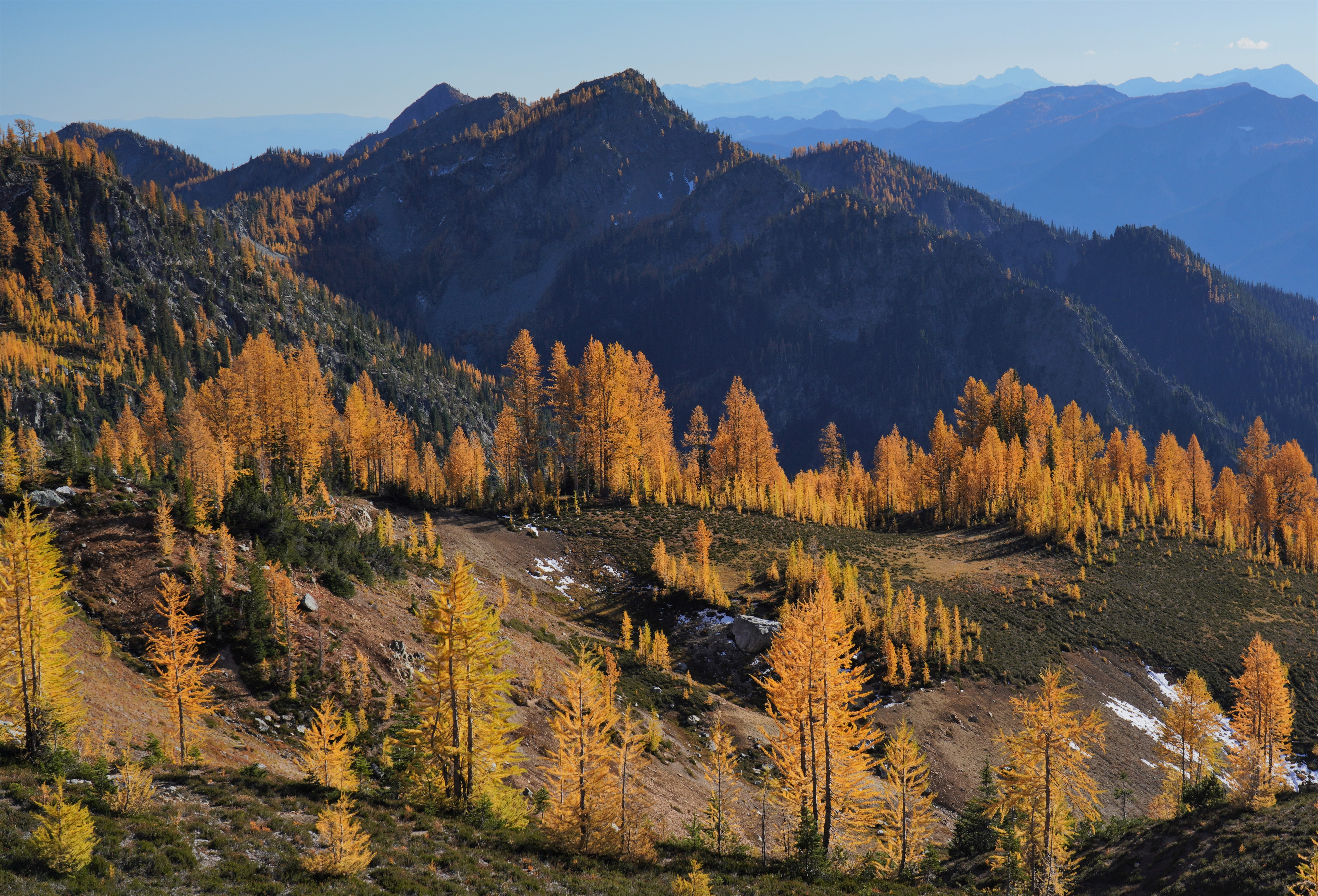 Golden larches and Carne Mountain seen from north.